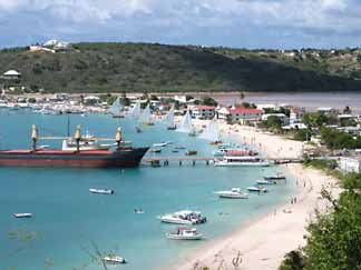 Anguilla Sandy Ground Overlook